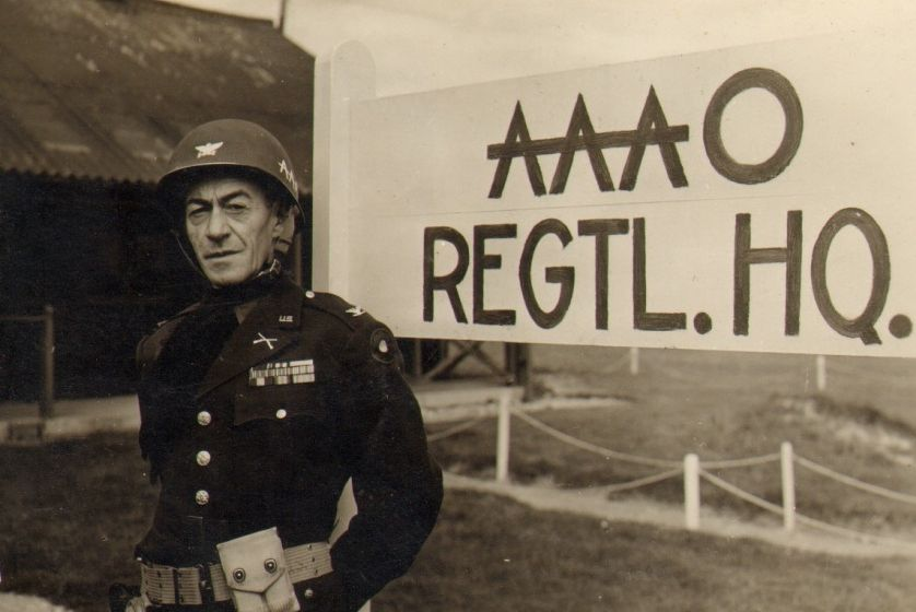 Harry Albert "Paddy" Flint was a career U.S. Army officer who commanded the 39th Infantry Regiment in World War II.